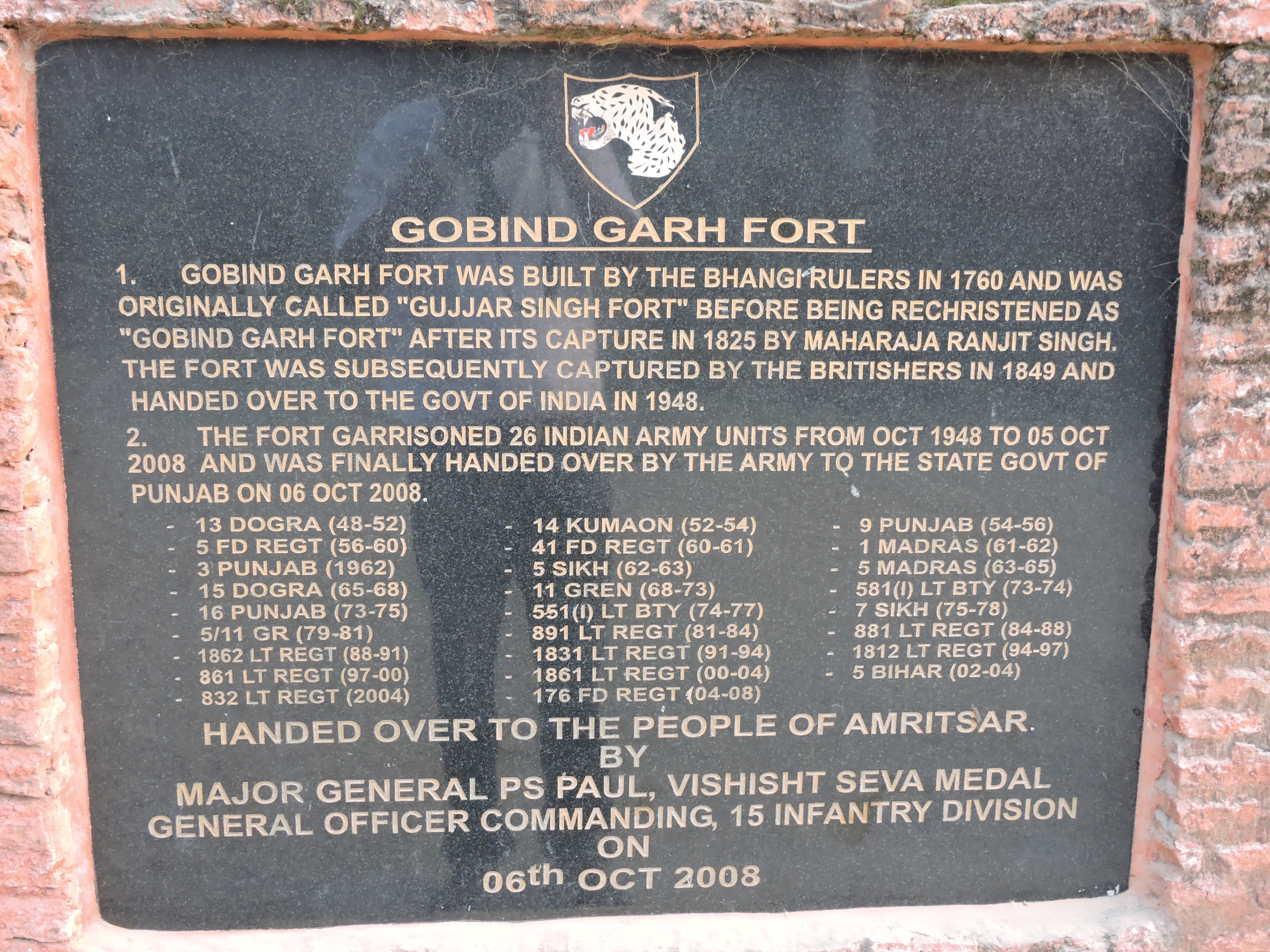 Description about possession of Gobindgarh fort, Amritsar,Punjab